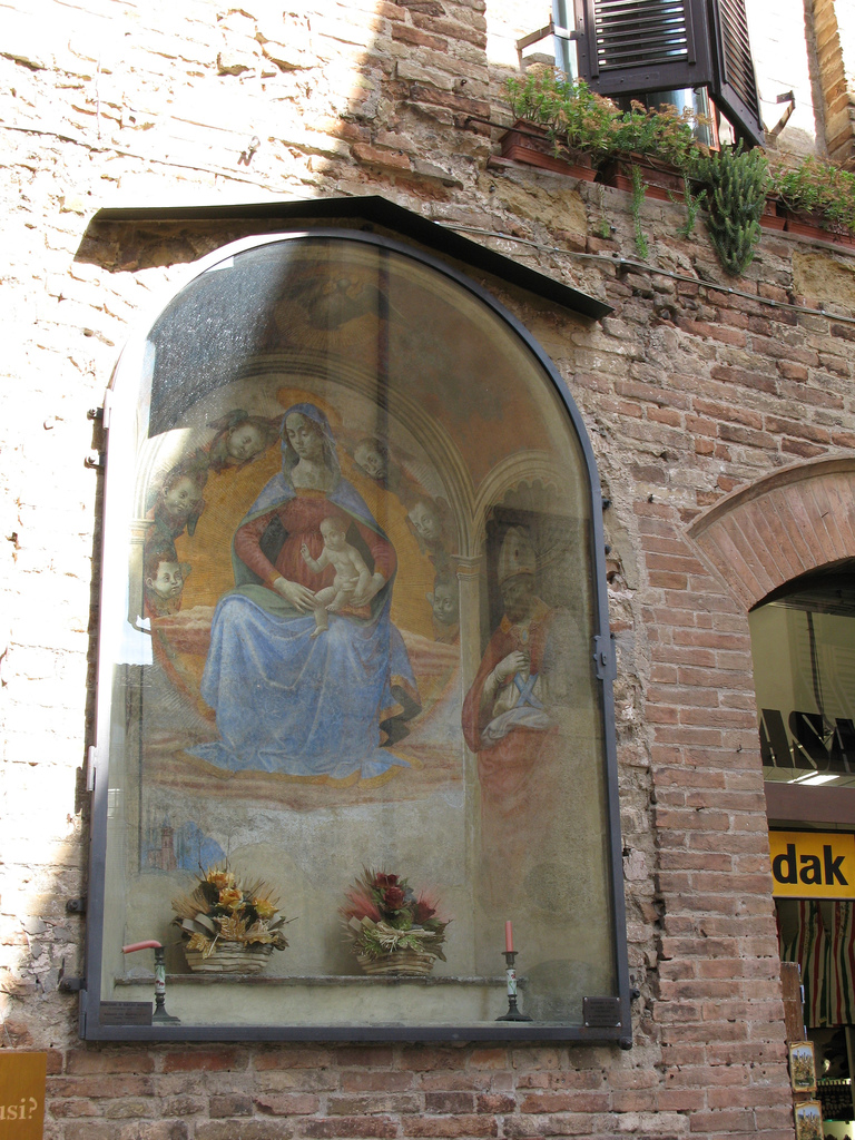 see above